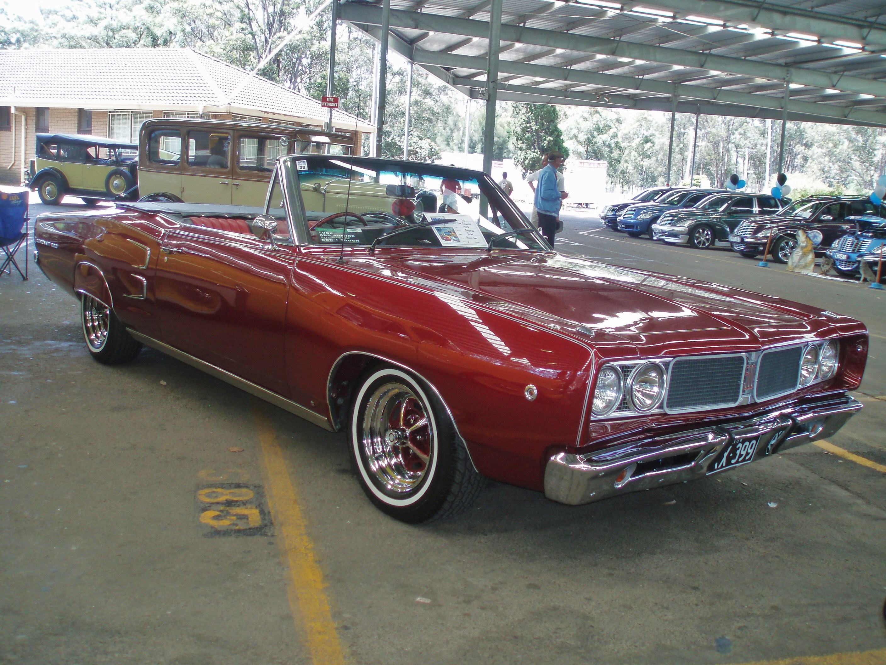 1968 Dodge Coronet 500 convertible. Taken at the 2010 New South Wales All Chrysler Day, held at Fairfield Showground, Prairiewood, Sydney.